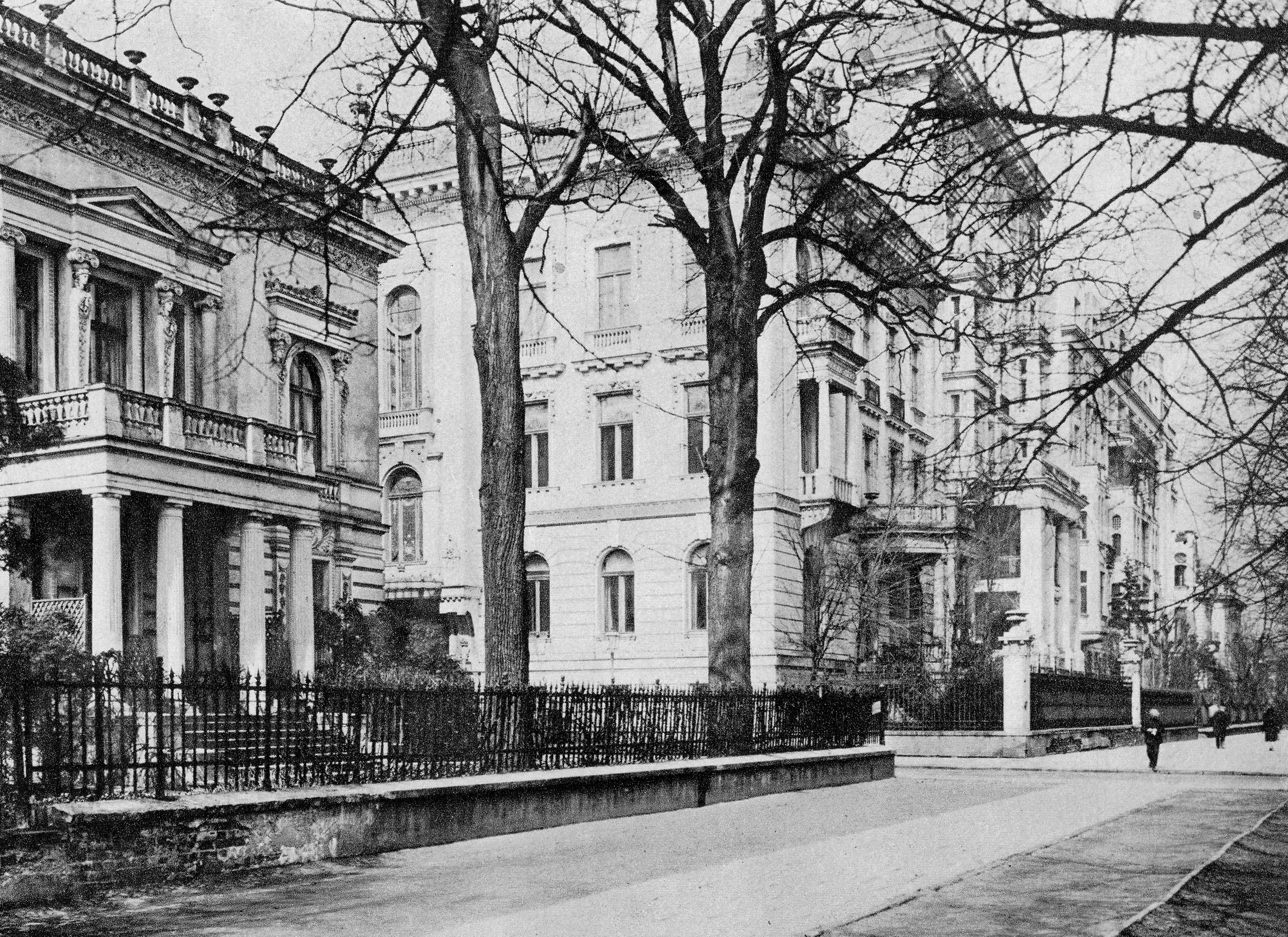 Townhouses on the Ujazdowskie Avenues in Warsaw